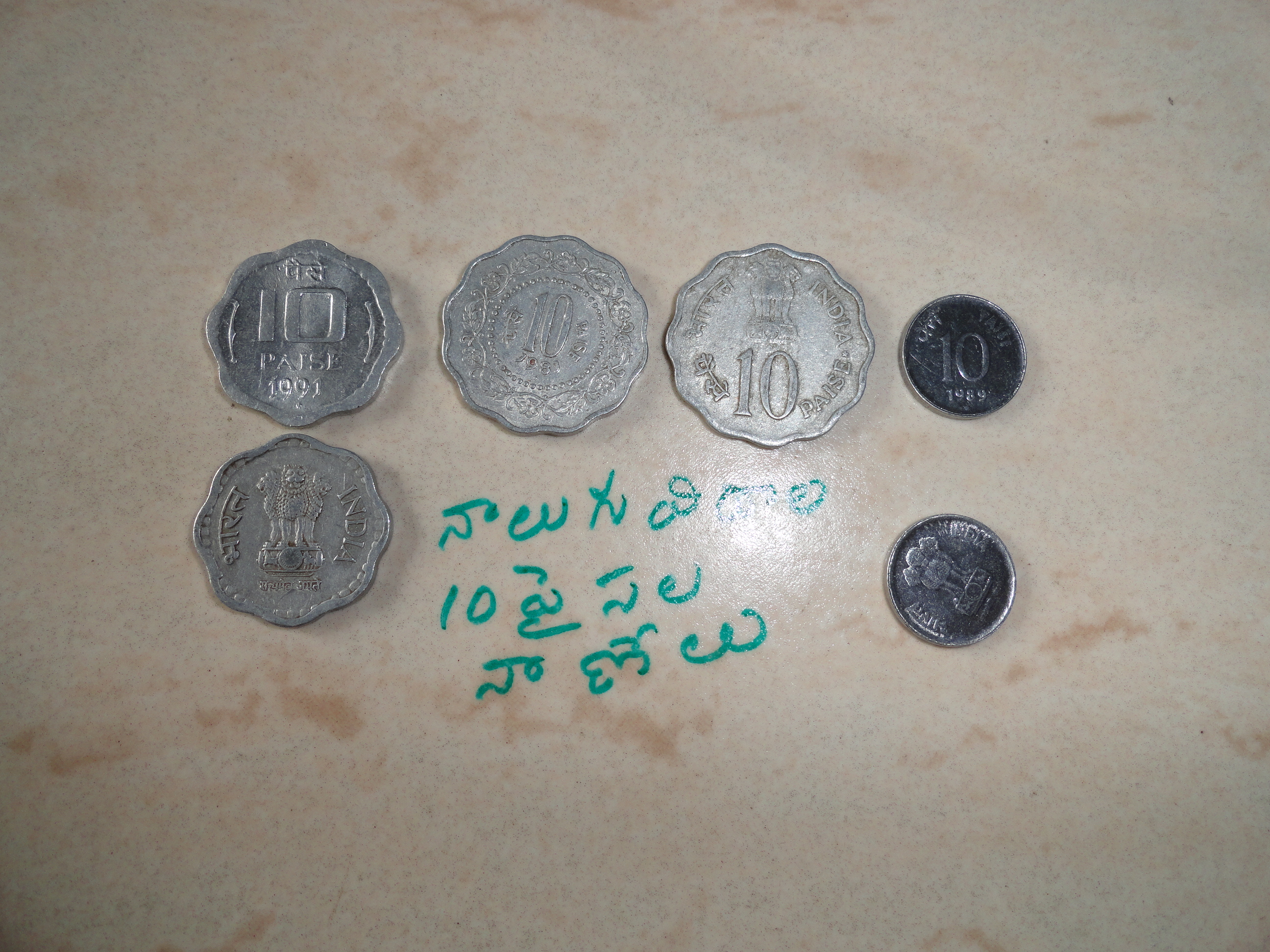 four types of ten paise coins